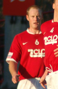 James Dudgeon